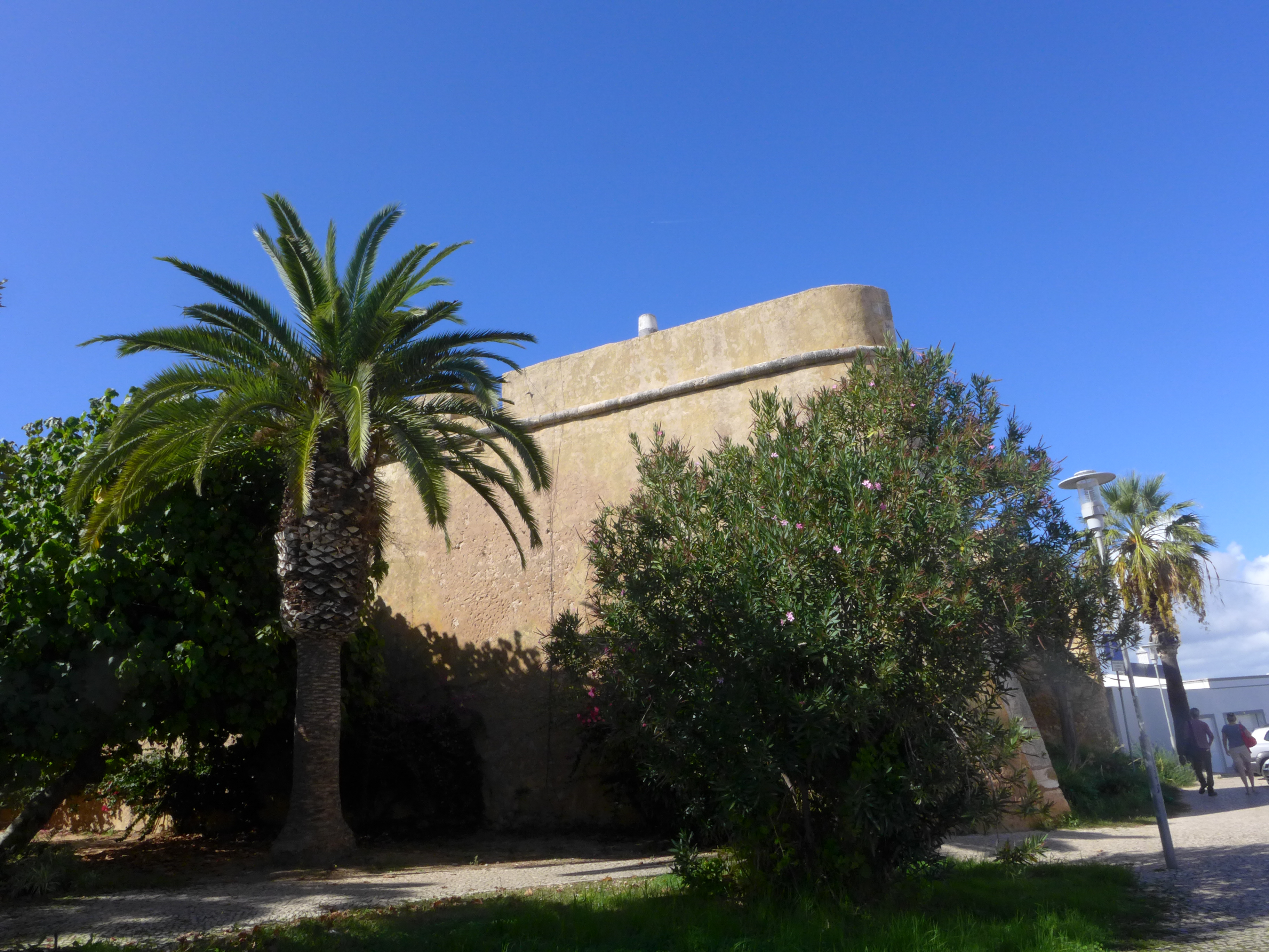 Lagos, Algarve, Portugal